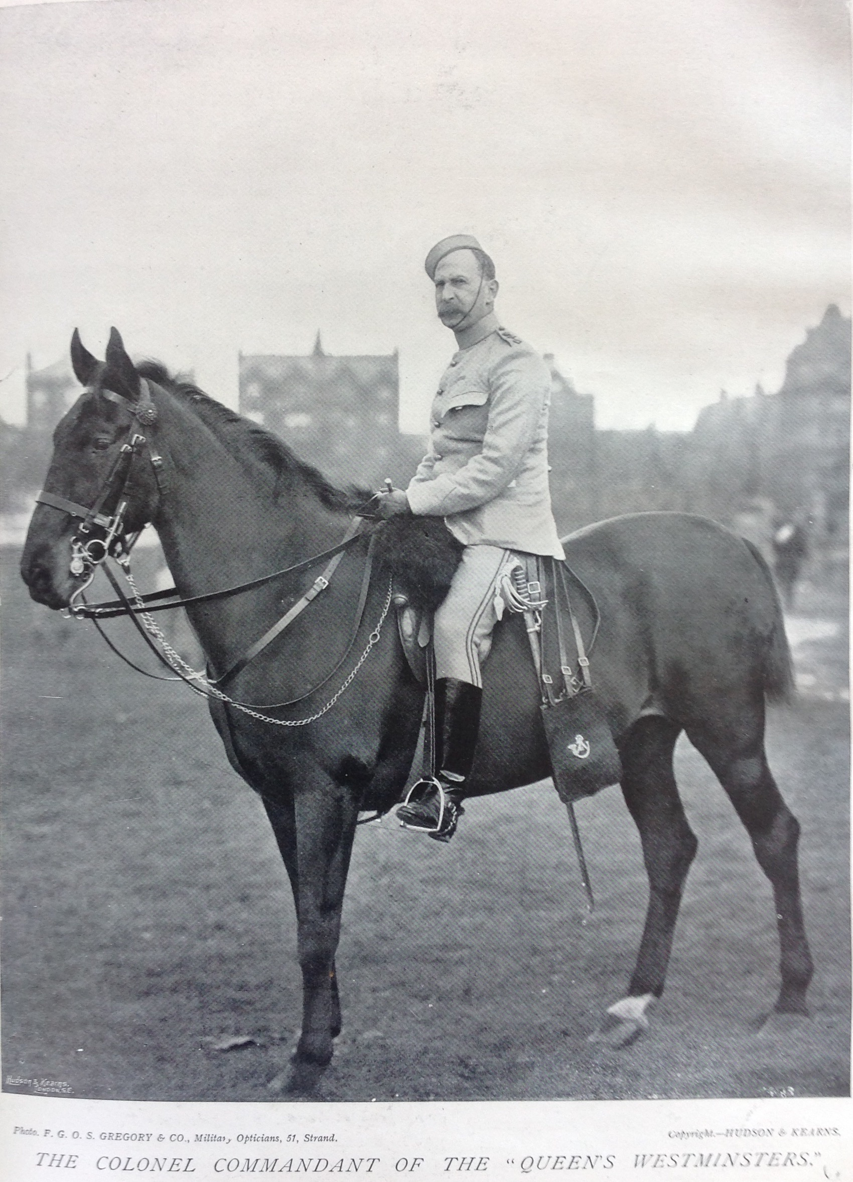 Colonel Sir Charles Howard Vincent, Commanded the Queen'Westminster Rifle Volunteers from 1884. Pictured in the Navy and Army Illustrated published on 15 May 1896